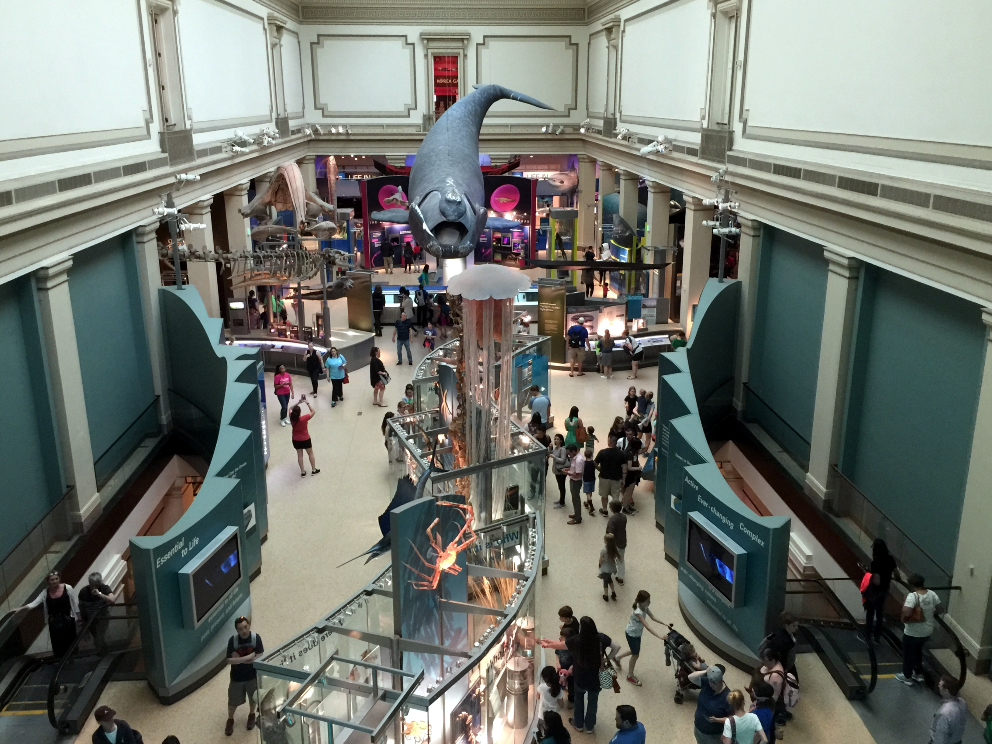 Ocean Hall Smithsonian Museum of Natural History, from the main hall, 2nd floor